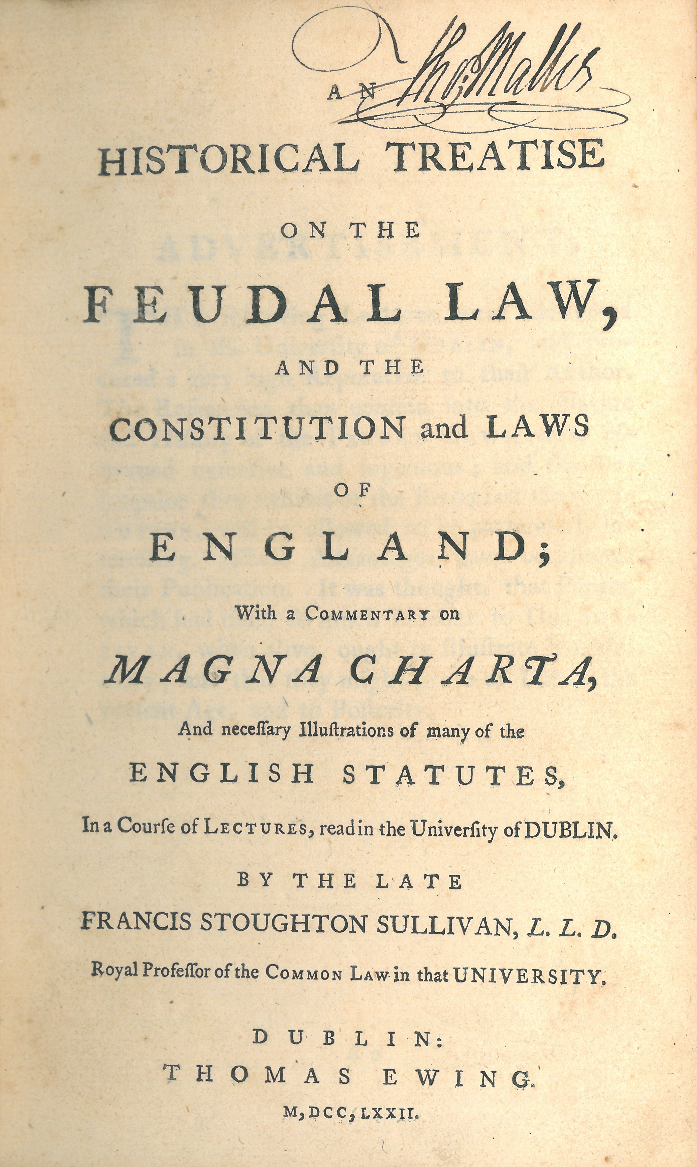 Title page of Francis Stoughton Sullivan (1772) An Historical Treatise on the Feudal Law, and the Constitution and Laws of England: With a Commentary on Magna Charta, and Necessary Illustrations of many of the English Statutes, in a Course of Lectures, Read in the University of Dublin. By the Late Francis Stoughton Sullivan, LL.D. Royal Professor of the Common Law in that University (1st Irish ed.), Dublin: Thomas Ewing OCLC: 776548497.